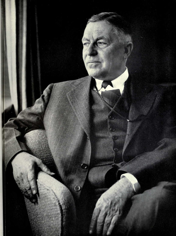 Photograph of Alexander Grant Ruthven This work is in the public domain because it was published in the United States between 1923 and 1963 and although there may or may not have been a copyright notice, the copyright was not renewed. Unless its author has been dead for the required period, it is copyrighted in the countries or areas that do not apply the rule of the shorter term for US works, such as Canada (50 pma), Mainland China (50 pma, not Hong Kong or Macao), Germany (70 pma), Mexico (100 pma), Switzerland (70 pma), and other countries with individual treaties. See Commons:Hirtle chart for further explanation. This work is in the public domain in the United States because it was published in the United States between 1923 and 1977 without a copyright notice. See Commons:Hirtle chart for further explanation. Note that it may still be copyrighted in jurisdictions that do not apply the rule of the shorter term for US works (depending on the date of the author's death), such as Canada (50 p.m.a.), Mainland China (50 p.m.a., not Hong Kong or Macao), Germany (70 p.m.a.), Mexico (100 p.m.a.), Switzerland (70 p.m.a.), and other countries with individual treaties.